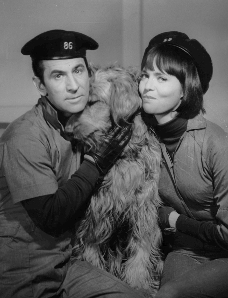 Photo of Don Adams as Agent 86 and Barbara Feldon as Agent 99 with Fang from the television comedy series Get Smart!. There are no copyright marks on the item, which can be seen at the link.